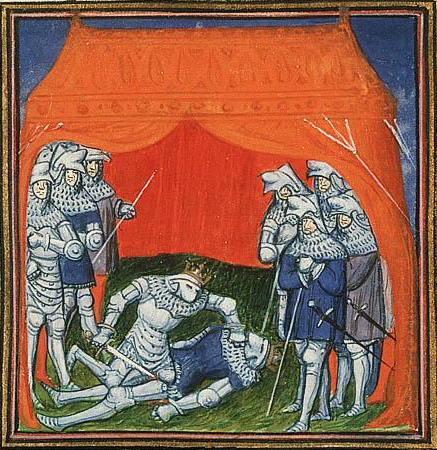 Enrique of Transtamare kills his half-brother Pedro I, king of Leon and Castile Contents: Jean Froissart, Chroniques (Vol. I) Place of origin, date: Paris, Virgil Master (illuminator); c. 1410 Material: Vellum, ff. 382, 385x288 (243x187) mm, 42 lines, littera cursiva, Binding: 18th-century brown leather; gilt; with coat of arms of Stadholder William V Decoration: 1 two-column miniature (170x180 mm); 29 column miniatures (115/65x95/80 mm); 1 historiated initial (45x50 mm); decorated initials with border decoration (ff. 1r, 24r, 36r, 62r, 74v, etc.) Provenance: Louis de Luxemburg, conn‚table de France (d. 1475; signature, erased); by descent to his granddaughter Françoise de Luxembourg and her husband Philip of Cleves (d. 1528; coat of arms with label, over erasure; signature); purchased in 1531 from Philip's estate by HenriIII, Count of Nassau (d. 1538); by descent to the Princes of Orange-Nassau, the later Stadholders, at The Hague; carried off in 1795 to Paris by the French and restituted to the Koninklijke Bibliotheek in 1816.